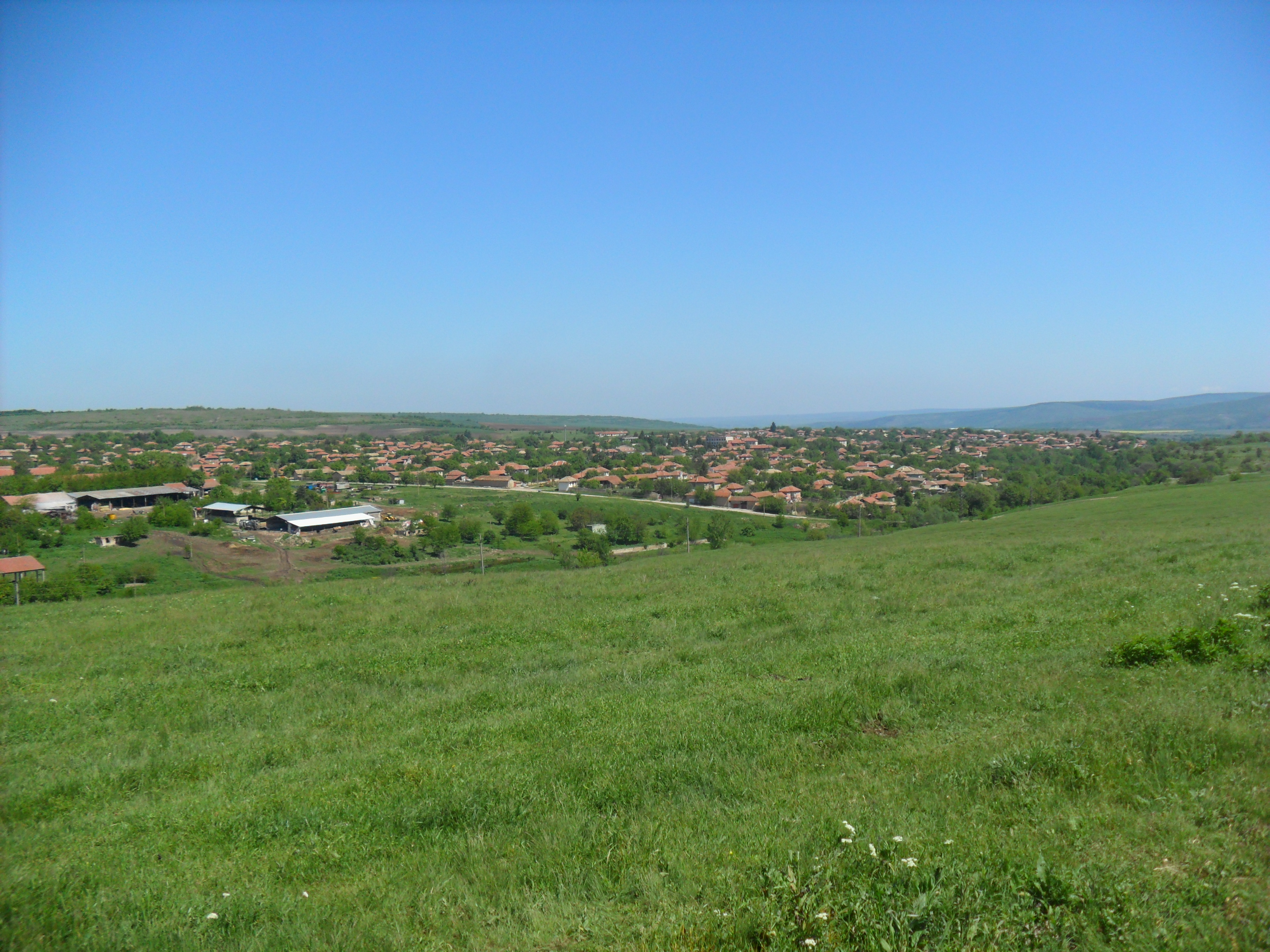 Panorama